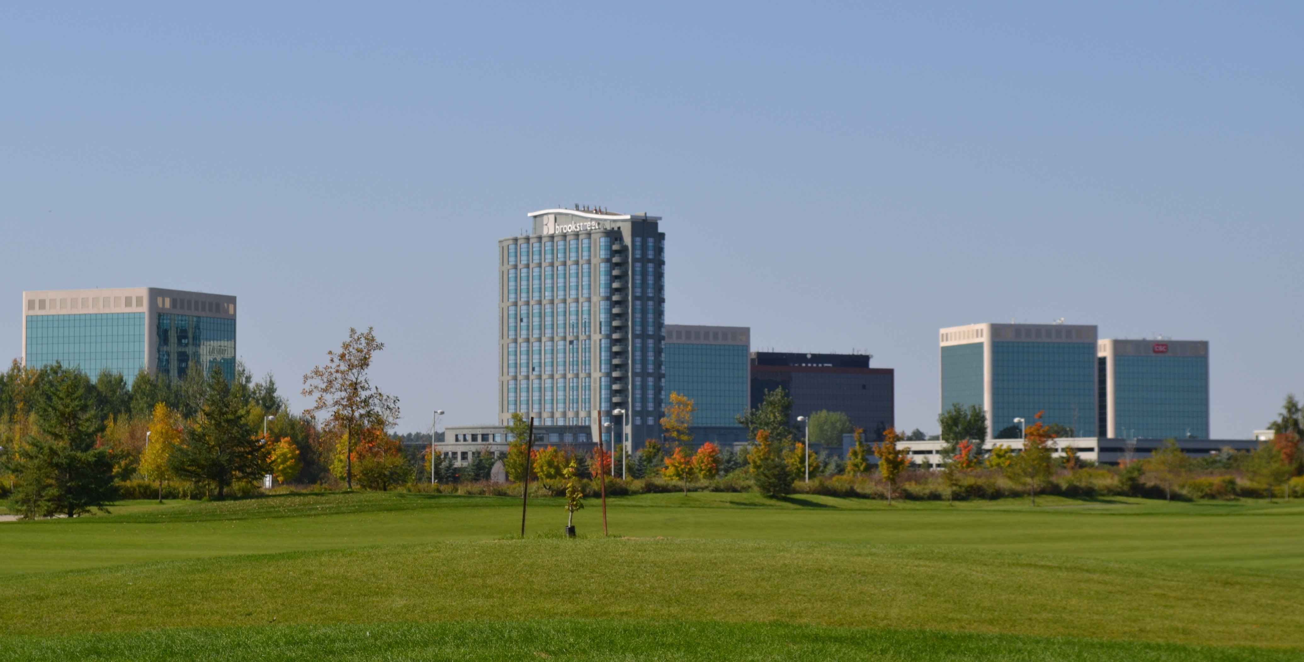 silicon valley north, Kanata district